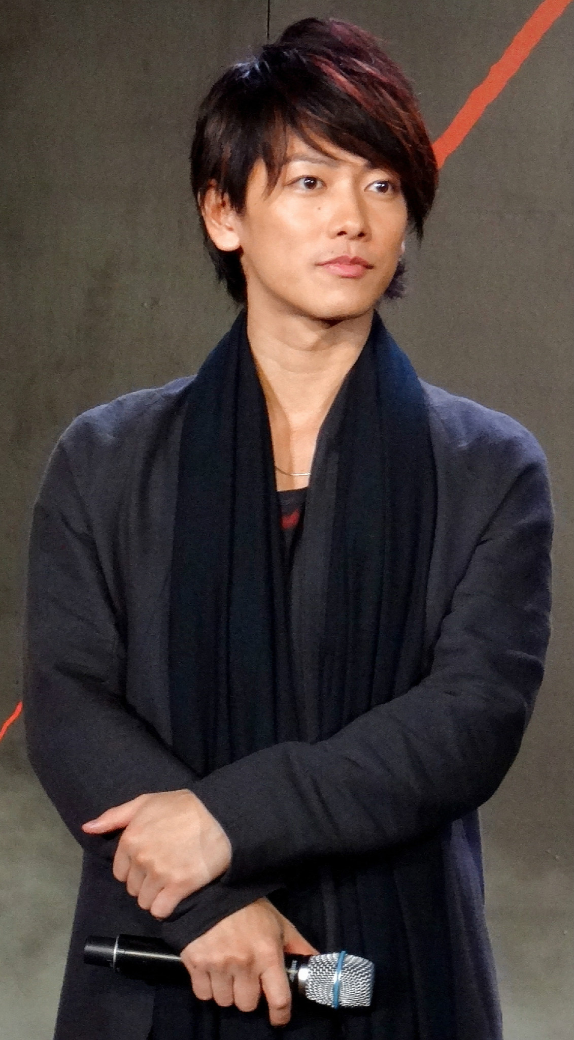 Japanese actor Takeru Sato at the premiere of Rurouni Kenshin: Kyoto Inferno / The Legend Ends